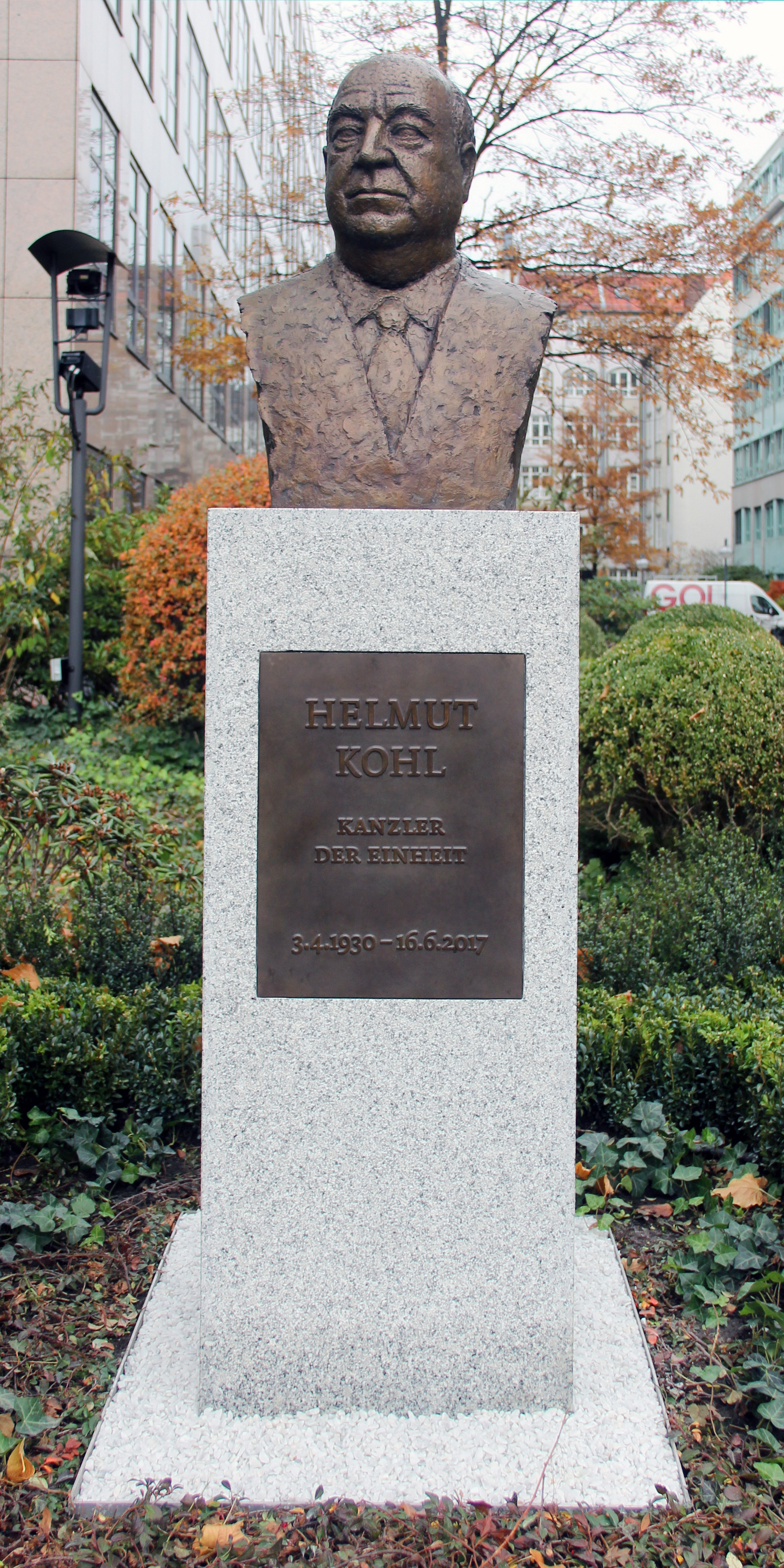 Bust, "Helmut Kohl" by Christine Dewerny, 2018, Kirchstraße 13, Berlin-Moabit, Germany